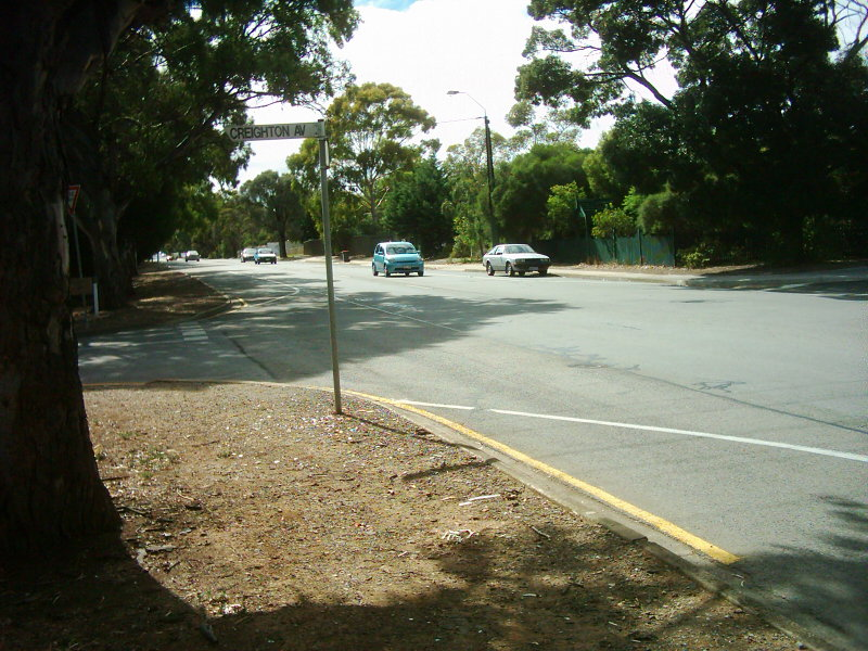 Wheatsheaf Road, Morphett Vale, facing East near Creighton Avenue.